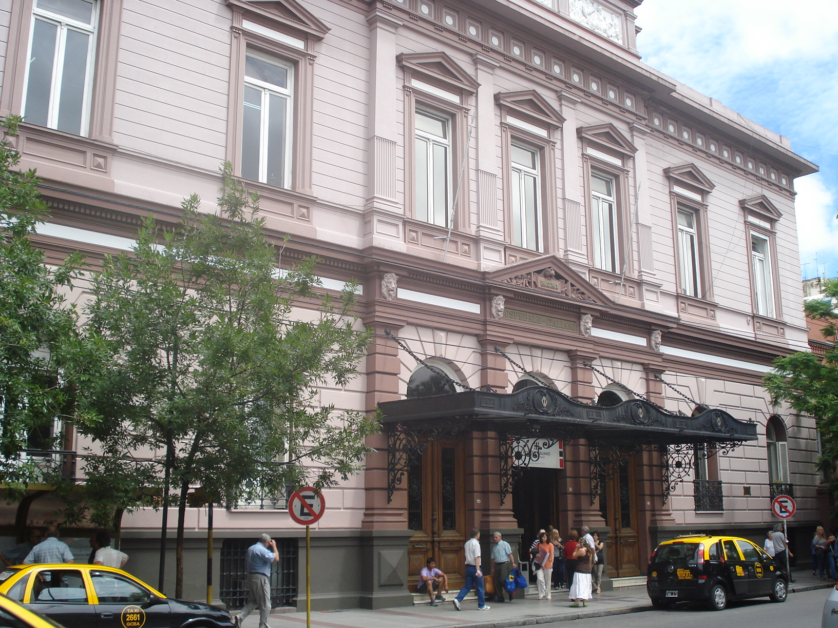 Hospital Italiano Main Building